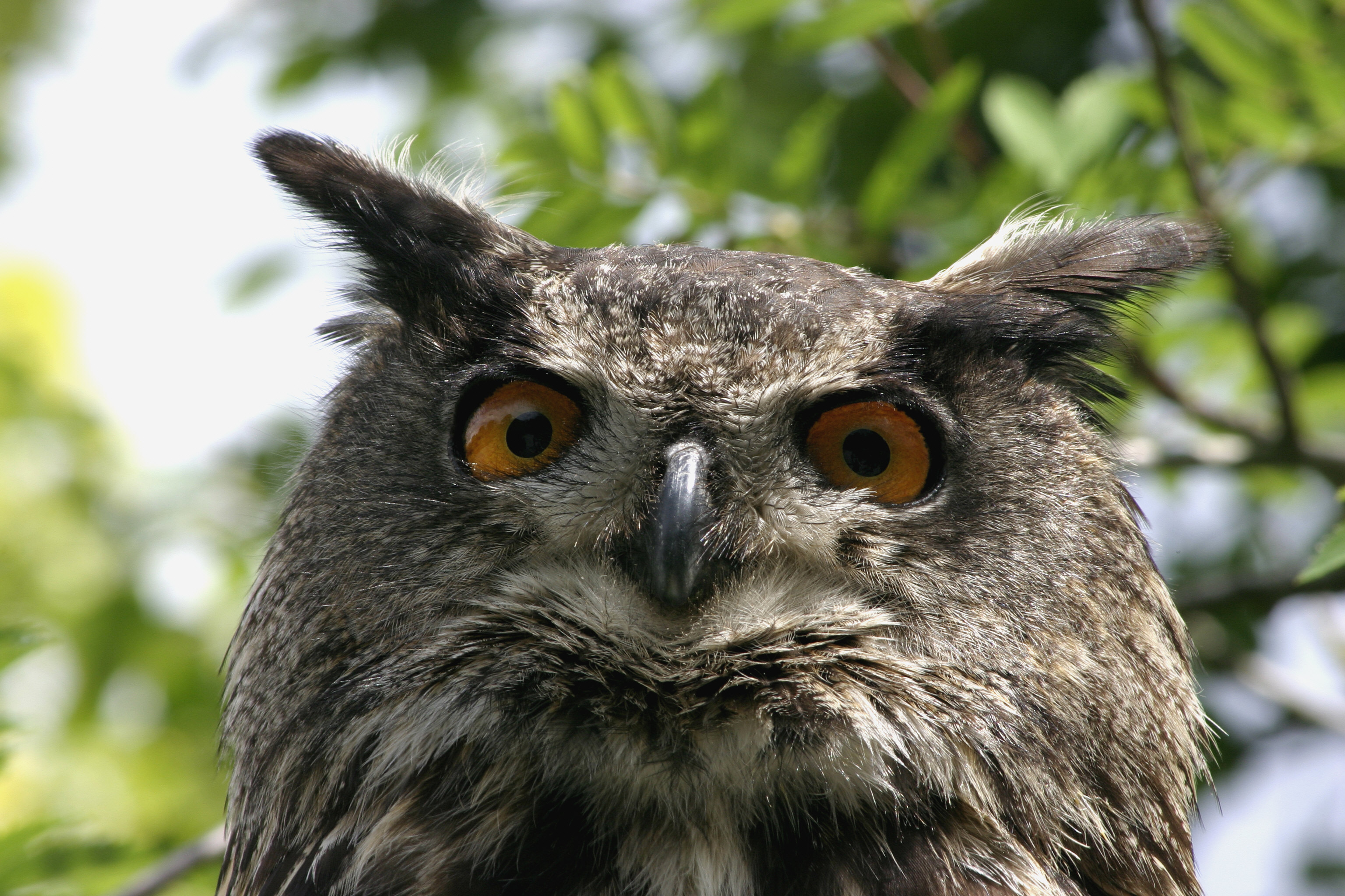 Unidentified Eagle Owl